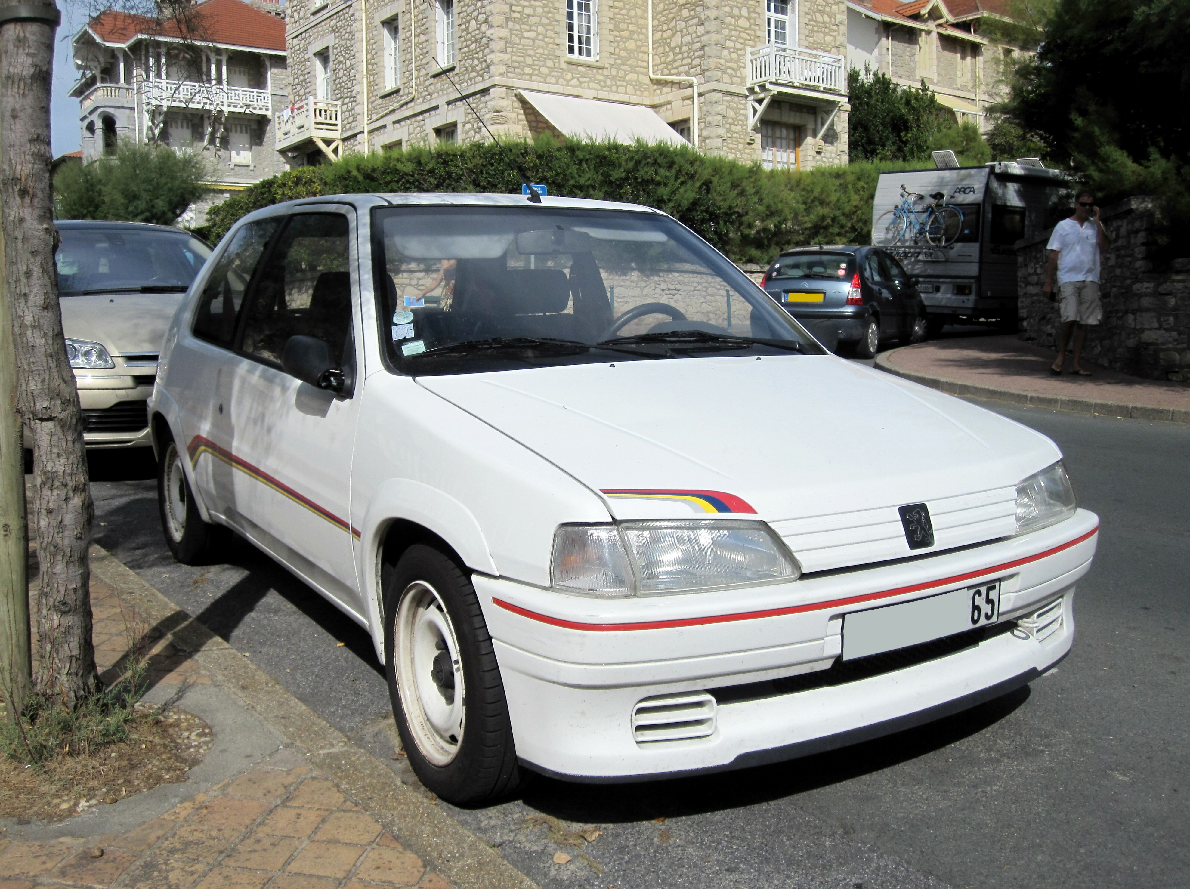 This must be fun to drive! Biarritz (Aquitaine) (France).